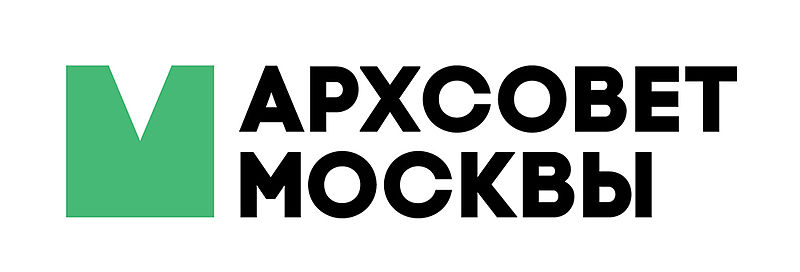 Logo of the Archcouncil of Moscow